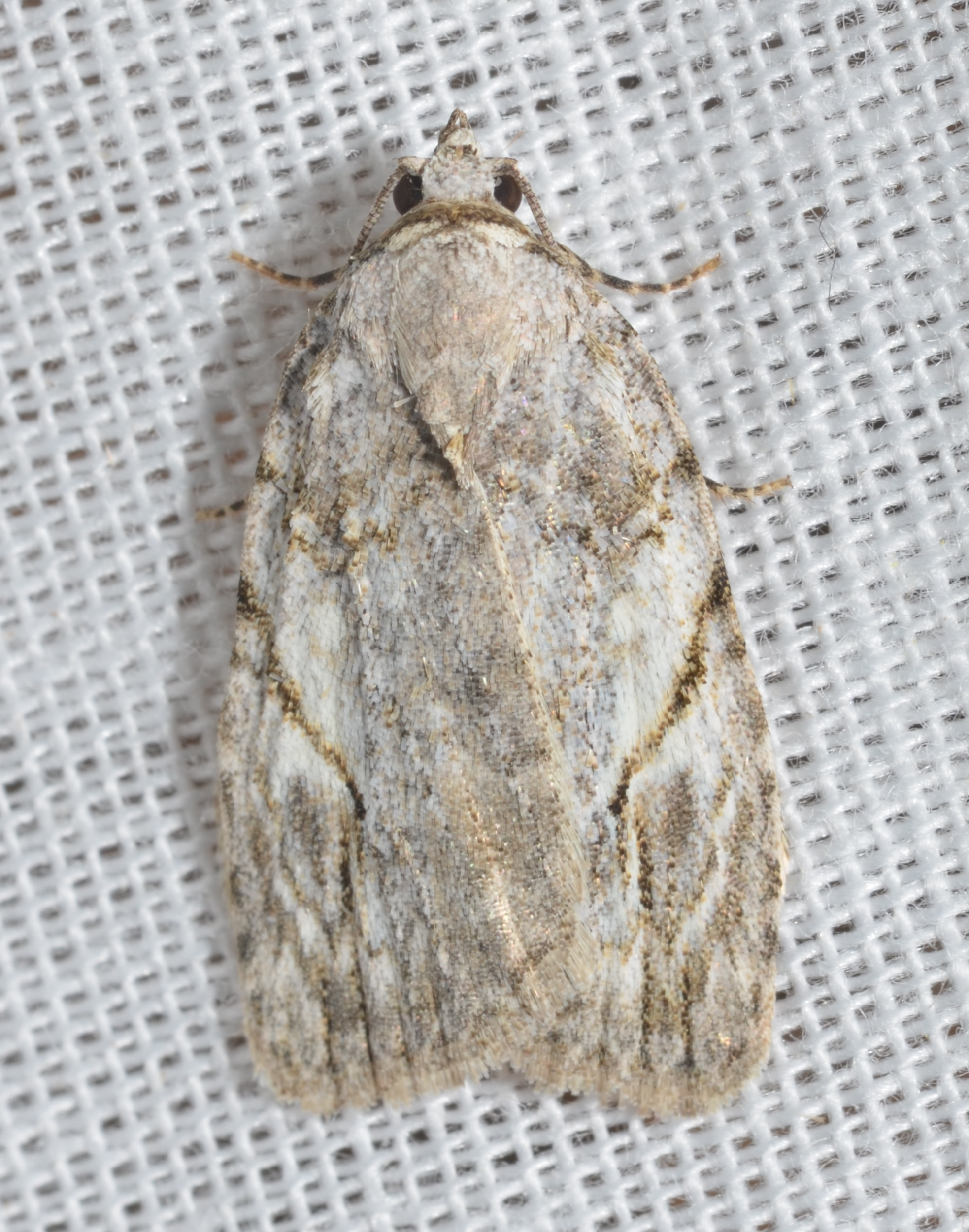 Cuivre River State Park 4/17/15